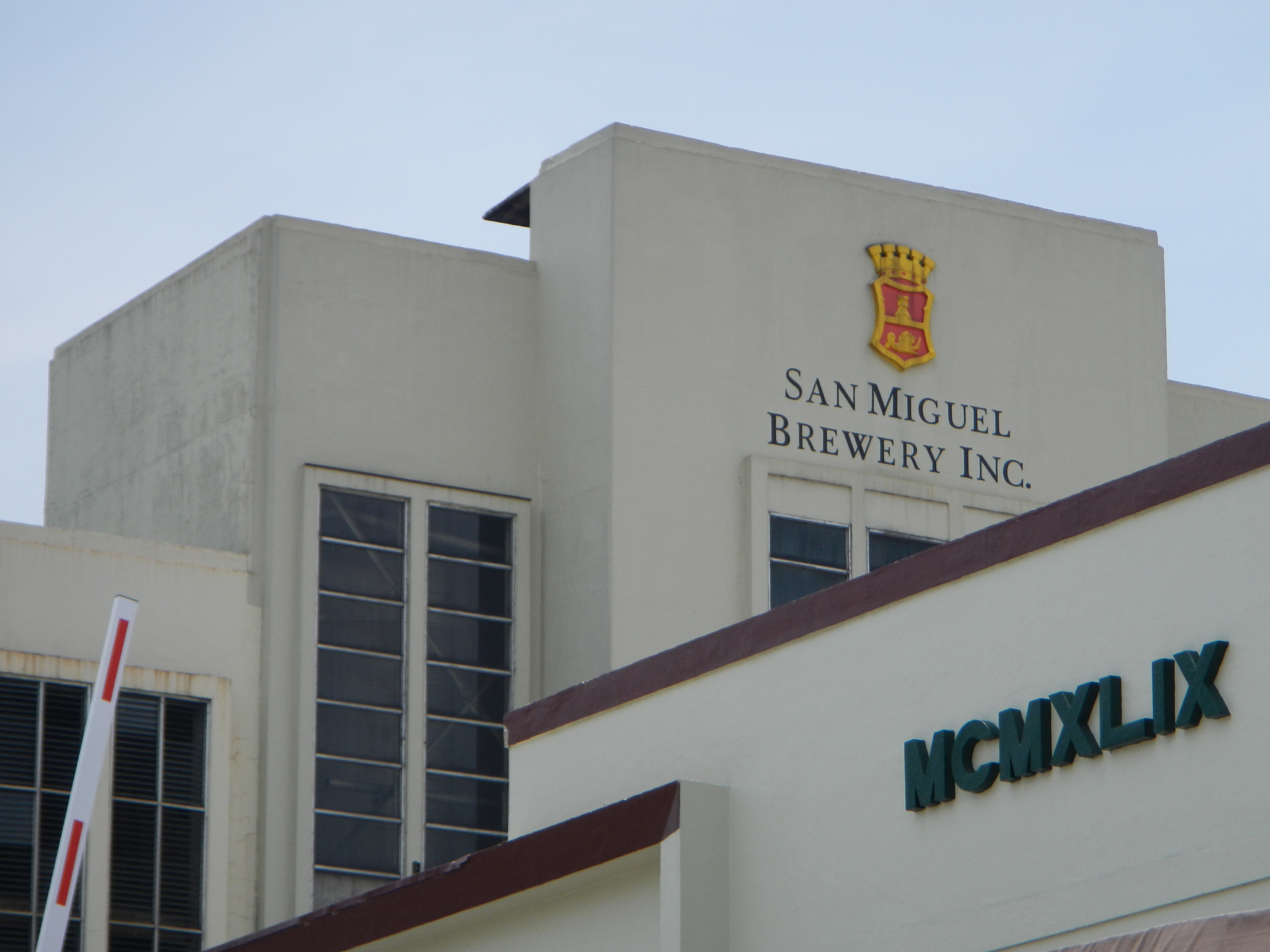 MacArthur Highway (in Metro Manila landmark Beer Brewery Plant since 1915[1] Brewing San Miguel Brewery San Miguel Brewery, Inc. (SMB) of the San Miguel Corporation), Marulas, Valenzuela City gateway to Maysan Road, Valenzuela, Lists of barangays in Philippine cities and municipalities, List of barangays in Valenzuela: to Category:SaveMore Market (Marulas, Valenzuela City).